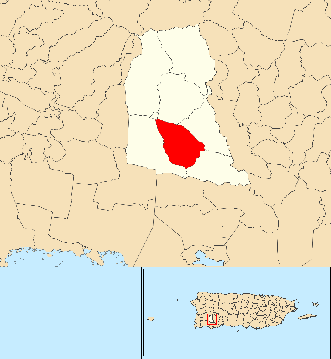 Machuchal, Sabana Grande, Puerto Rico locator map